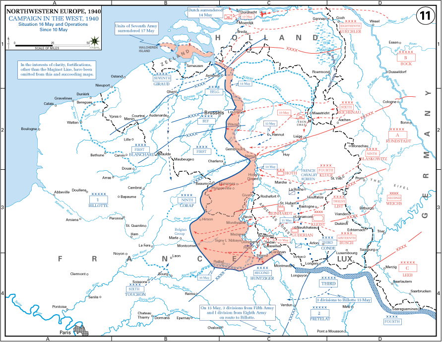 The German advance between 10 May and 16 May 1940. The red area denotes the territory captured by Germany during this time. The German field armies and Corps are shown in red. The red plan icon indicates the German airborne attack on the Belgian fortress of Eben-Emael. The operating area of the various Belgian, British, and French field armies and Army groups are shown in blue. The checkered white and blue area denotes the French Maginot Line. The commanders of the various units are shown under their respective formation. Solid lines represent the boundaries between each major unit. Dotted lines depict lines of advance. Key dates are shown in boxes.